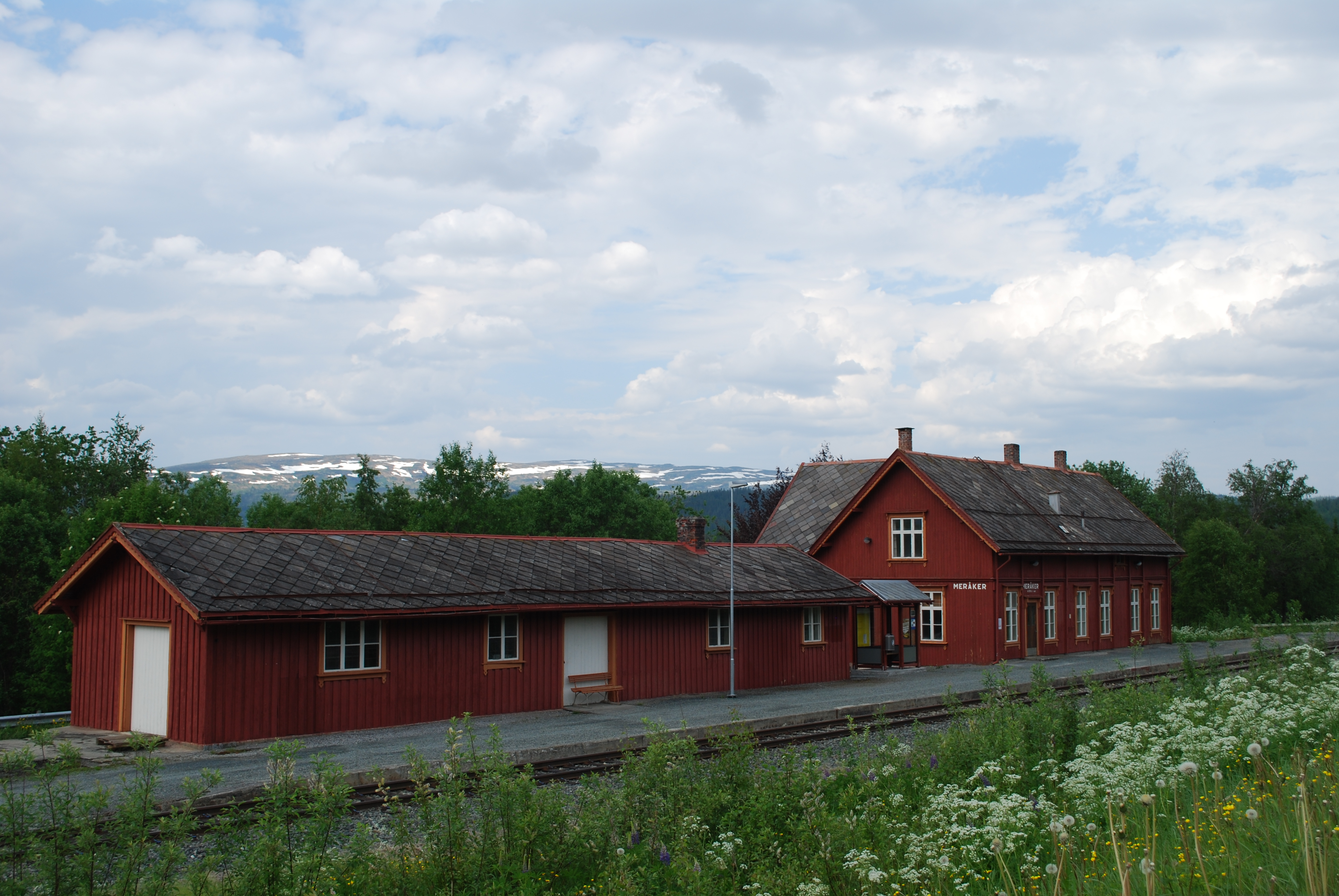 Meråker train stasjon in Meråker, Nord-Trøndelag, Norway.